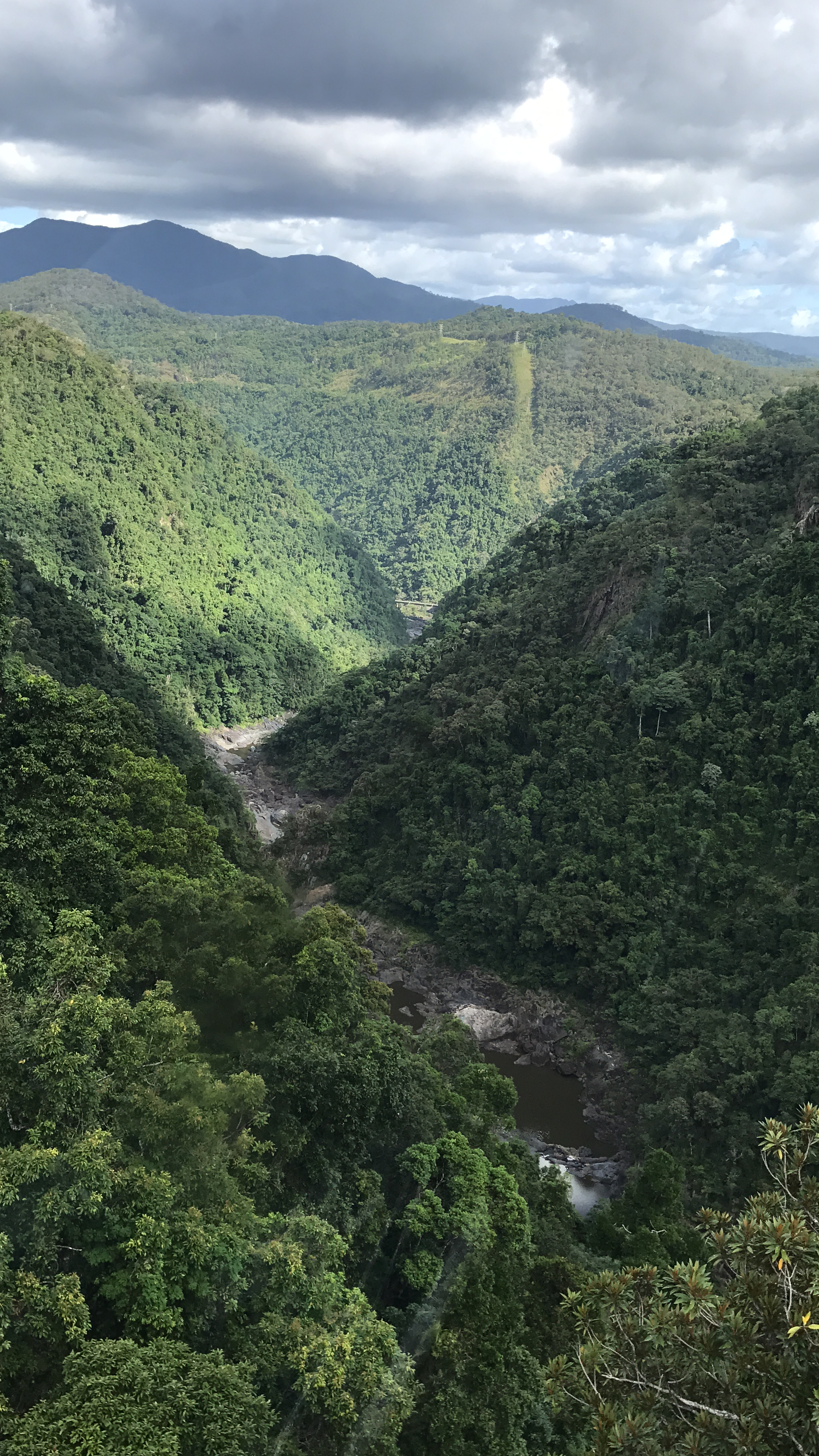 The Barron river that flows through dense, world-heritage-listed, Kuranda rainforests(tropical rainforests). This is a picture of Barron Gorge with a mountain range in distance. This picture was taken from skyrail gondola.